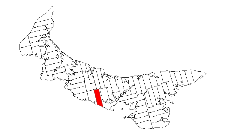 Public domain map of Prince Edward Island created by User:Plasma east with data courtesy of Geogratis, modified to show townships. Released under GFDL (self).